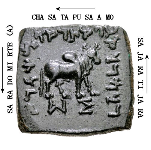 Artemidoros coin obverse with transliteration. The "A" of "Artemidoros" is visible on other coins, such as this one [1].